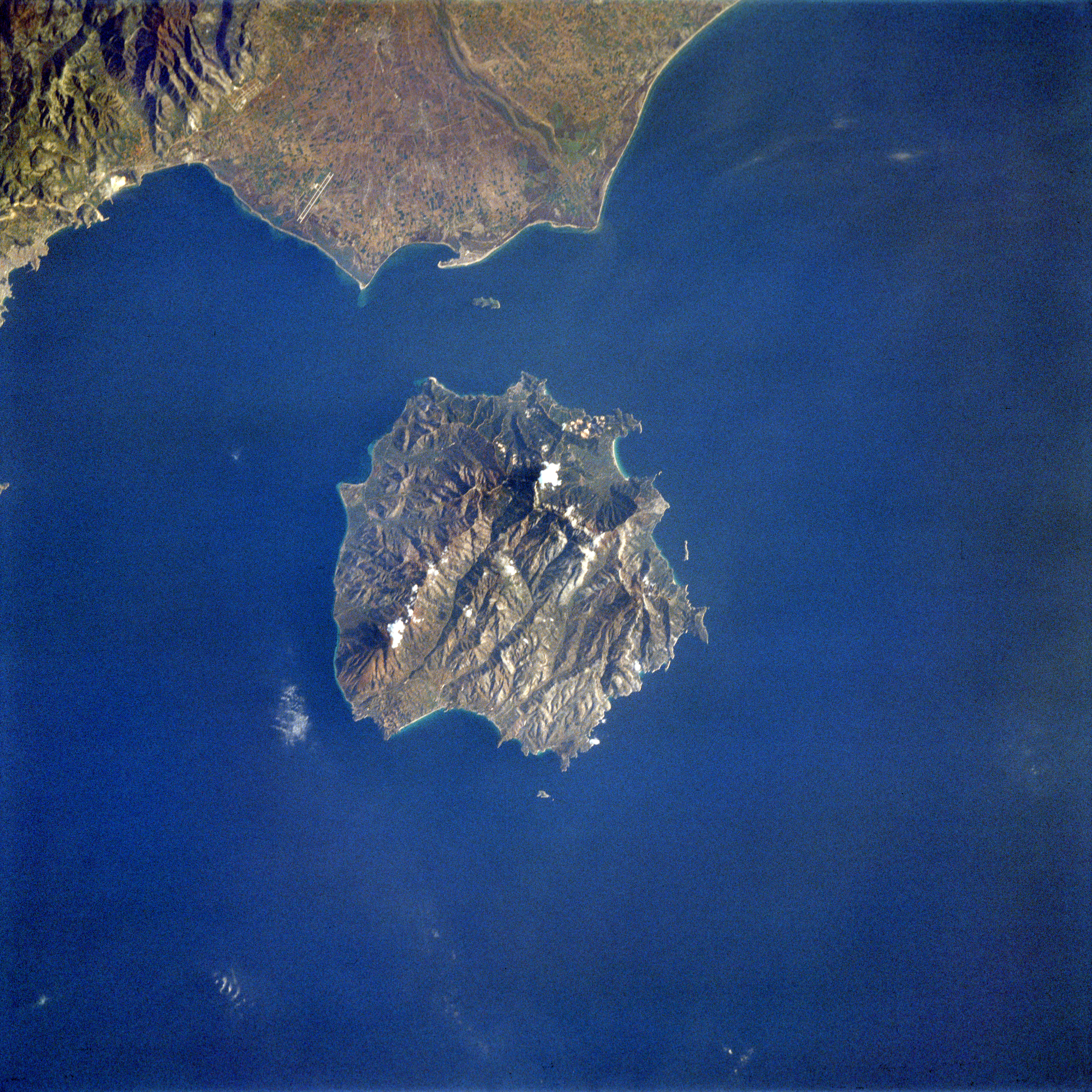 Thasos Island, Greece Thasos (Thassos) Island, famous in antiguity for its gold and marble lies 4 miles (6 km) off the coast of Greece in the northern Aegean Sea. Covering an area of 170 sq. miles (440 sq. km), the rugged, forested, mountainous island is composed of marble and gray green gneiss. Numerous sandy beaches dot the island. Ample rainfall in autumn and winter sustains the dense vegetation, which covers the landscape and makes the island a popular vacation resort area. Thasos Island is now famous for its honey as beehives are in evidence throughout the island. The long airport runway at Kavala Khrisoupolis Airport on mainland Greece is visible near the bottom center of the image.